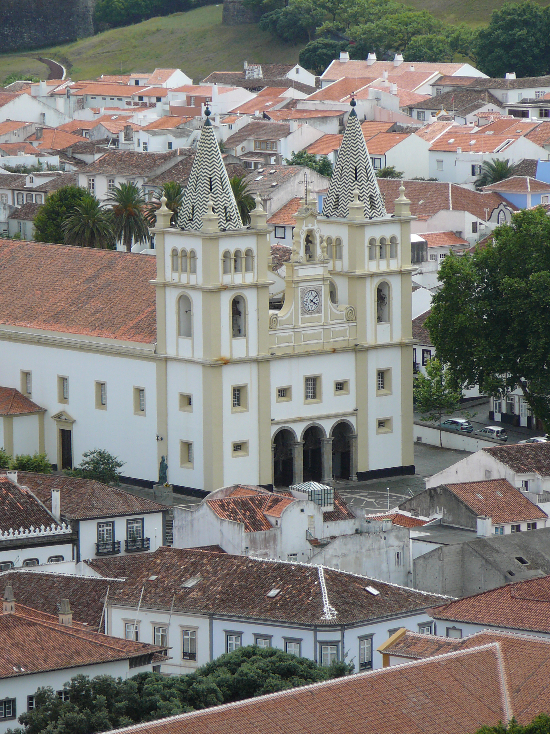 This file was uploaded for Wiki Loves Monuments in Portugal with the unique identifier 98180001.